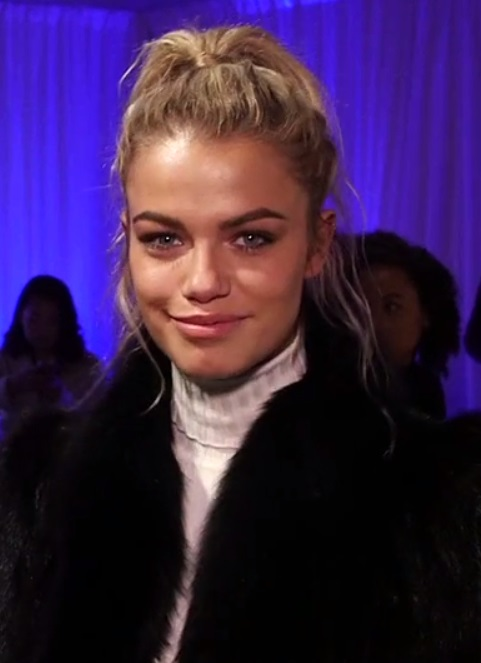 American model Hailey Clauson at Sports Illustrated Swim City fan festival in New York City in 2016, interviewed by Arthur Kade of Behind the Velvet Rope TV.